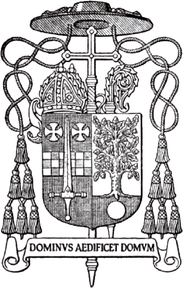 The coat of arms of Bishop Regis Canevin of Pittsburgh (1904–1920).